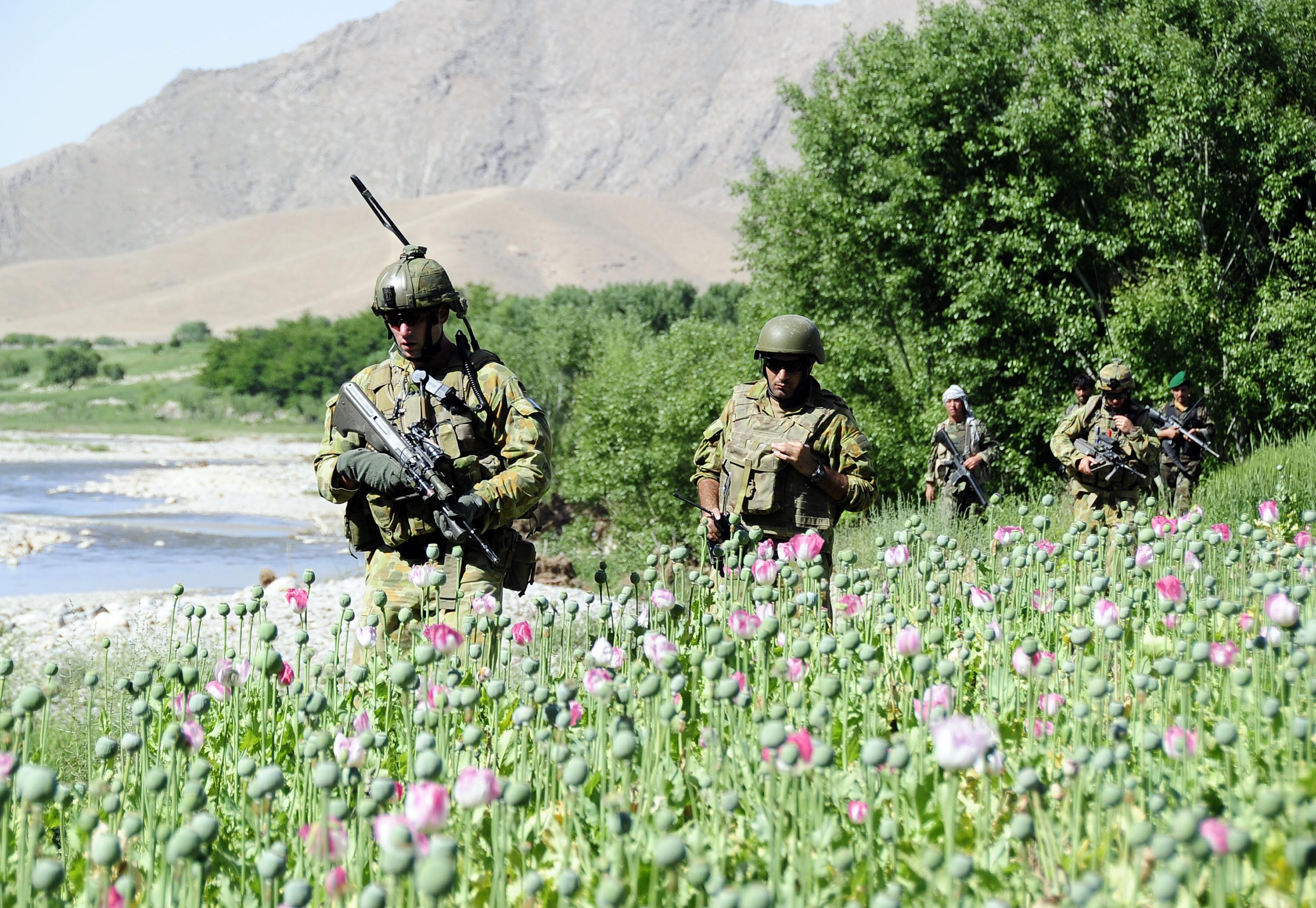 Captain Julian Hohnen, Officer Commanding a combined Australian and Afghan Army patrol base in the Baluchi Valley Region mentors Afghan National Army Officer, Lieutenant Farhad Habib. All across the MTF1 area of operations partnered mentoring is being conducted on mounted and dismounted combined patrols with ever increasing security presence being experienced by local communities from the Southern Baluchi Valley to the Northern Chora reaches as well as east through the Mirabad. Ongoing combined ANA and MTF1 security operations involving infantry, combat engineer and reconnaissance capabilities in Oruzgan have achieved multiple layers of effects including an increased rate of IED “find and render safe” percentages, increased cache finds, and enhanced trust fostered within local communities. (Photo courtesy Australian Government Department of Defence)